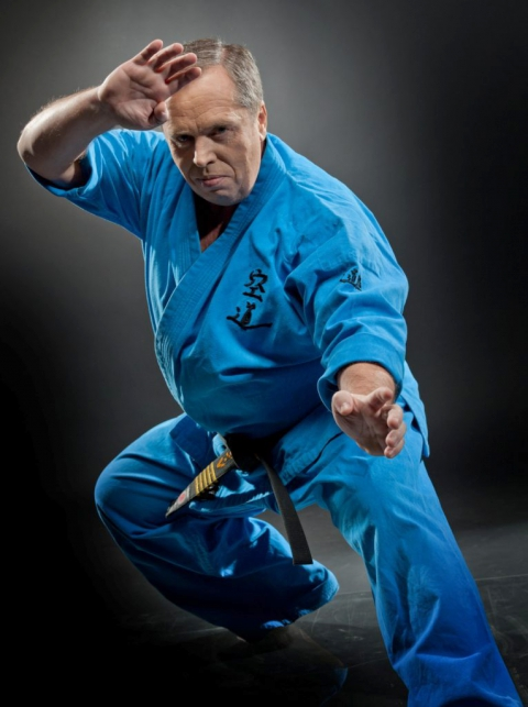 Image showing Russian martial artist Vladimir Zorin (currently: 5th dan Kūdō, Head coach of the national team of Russia in Kūdō, International Judge in Kūdō, Vice-president of the Russian Kūdō Federation) in a typical Kūdō gi